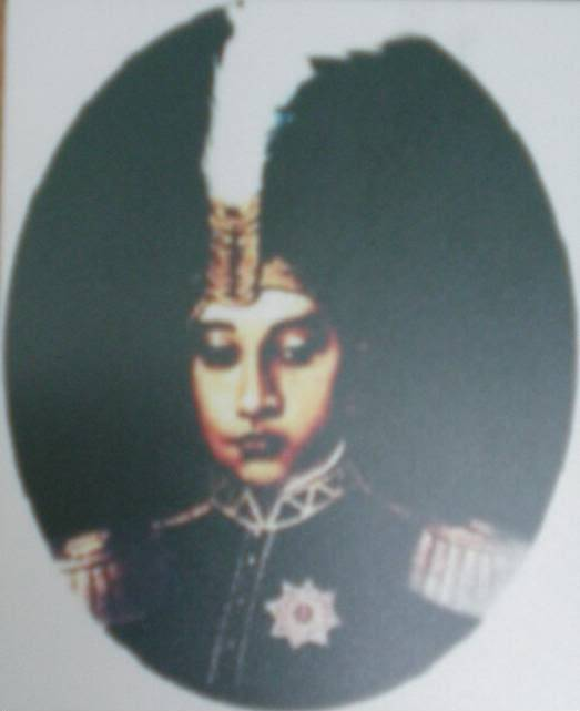 Hamengkubuwono IV (1804-1822), Sultan of Yogyakarta